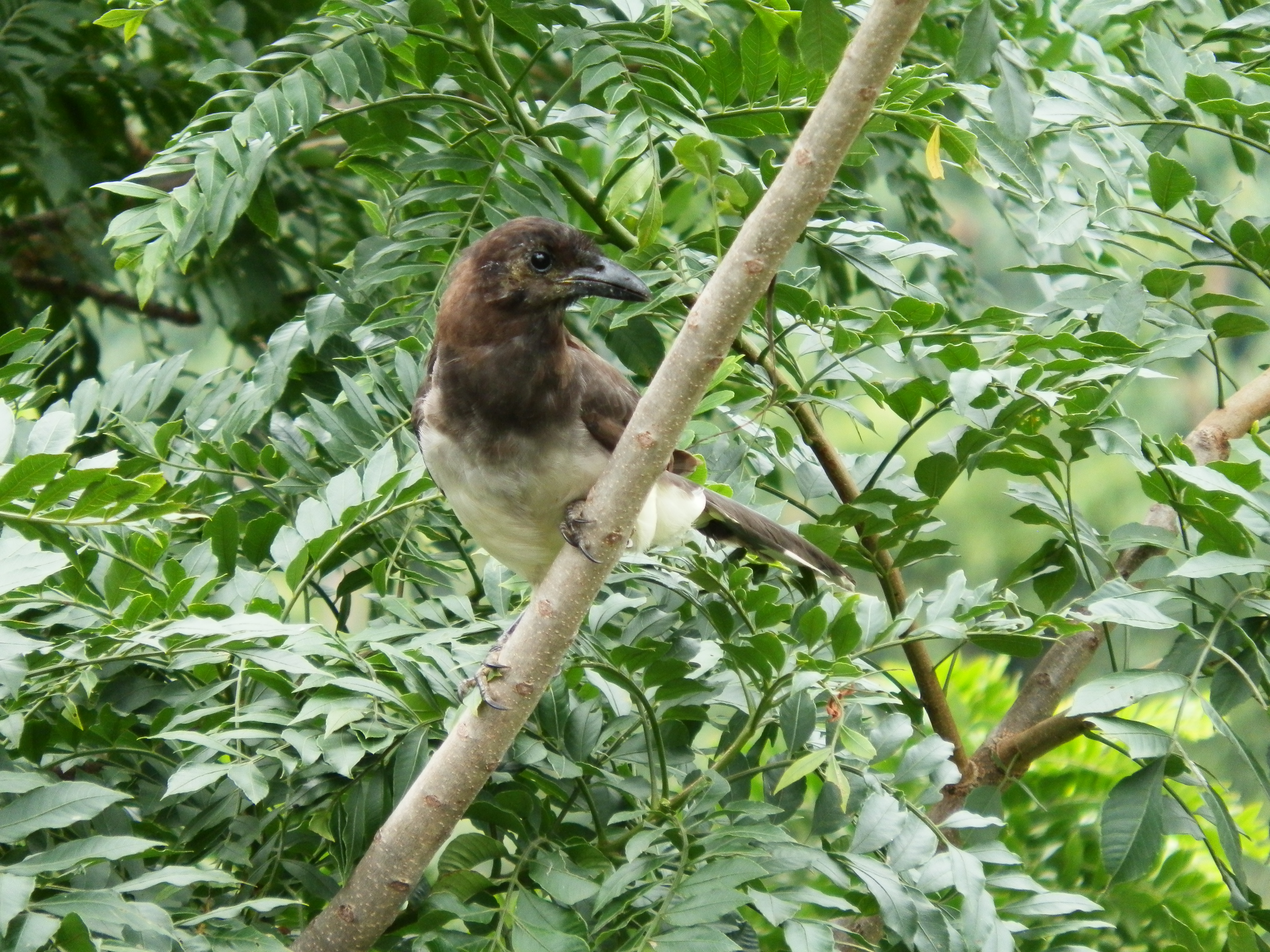 Brown Jay (Cyanocorax morio), Aserrí, San José, Costa Rica